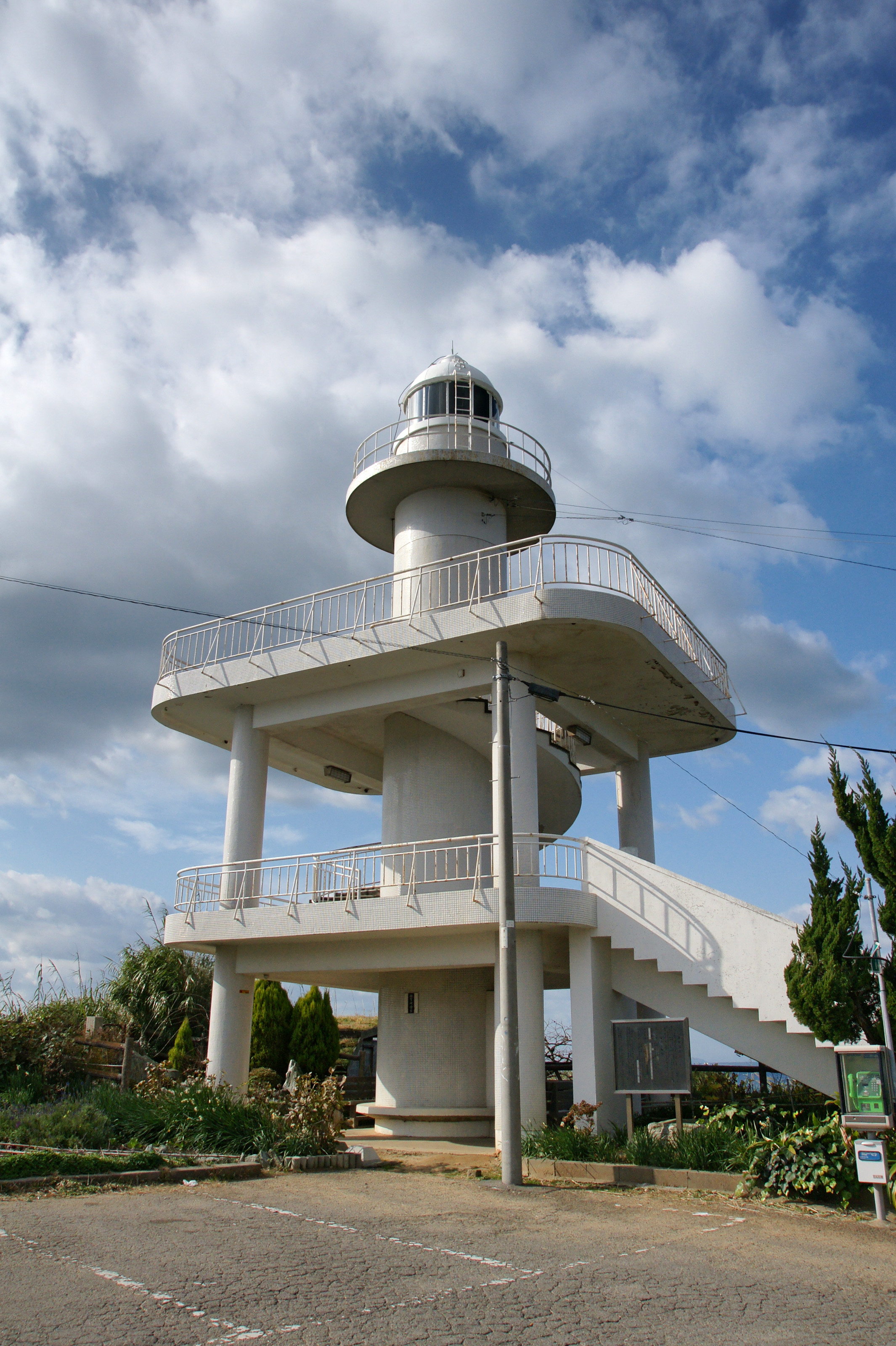 Saikazaki Lighthouse, Wakayama, Wakayama prefecture, Japan